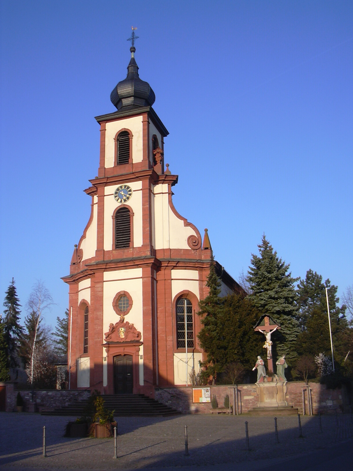 St. Michael, Church by Balthasar Neumann, Hofheim/Ried